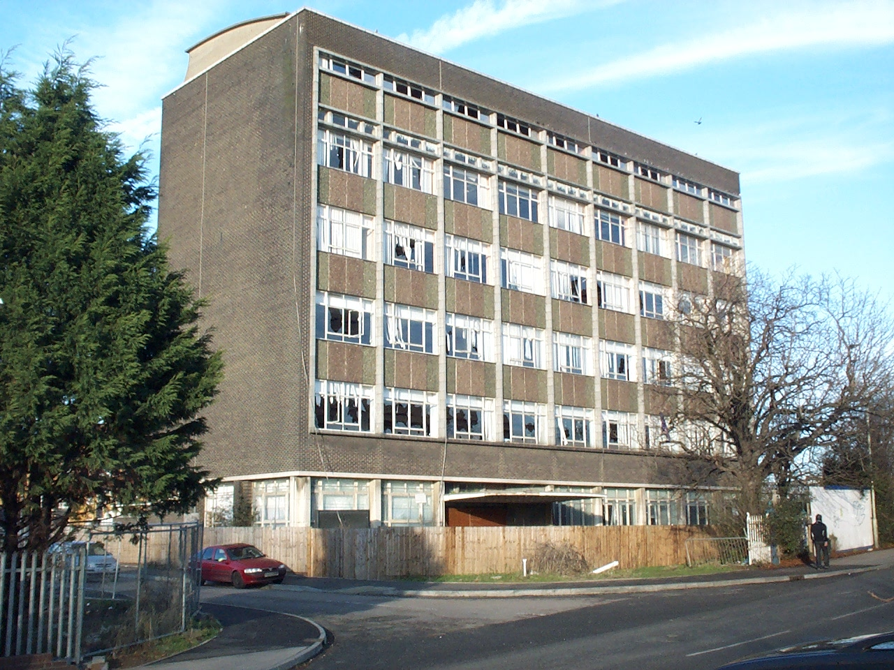 The derelict office building on the site of W. H. Allen's which, before its closure, was the last major engineering plant in Bedford. THe building stood (at the time of this photograph) on Ford End Road in Queens Park, Bedford, Bedfordshire. It was demolished on the 2nd and 3rd of June, 2009.